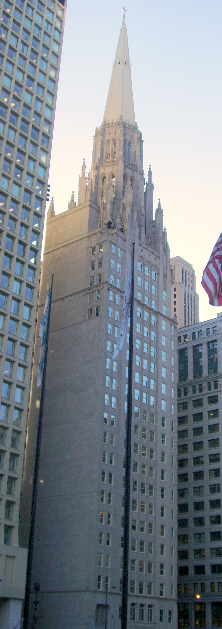 Chicago Temple Building, 77 West Washington Street, Chicago, Illinois. Photographer: David K. Staub